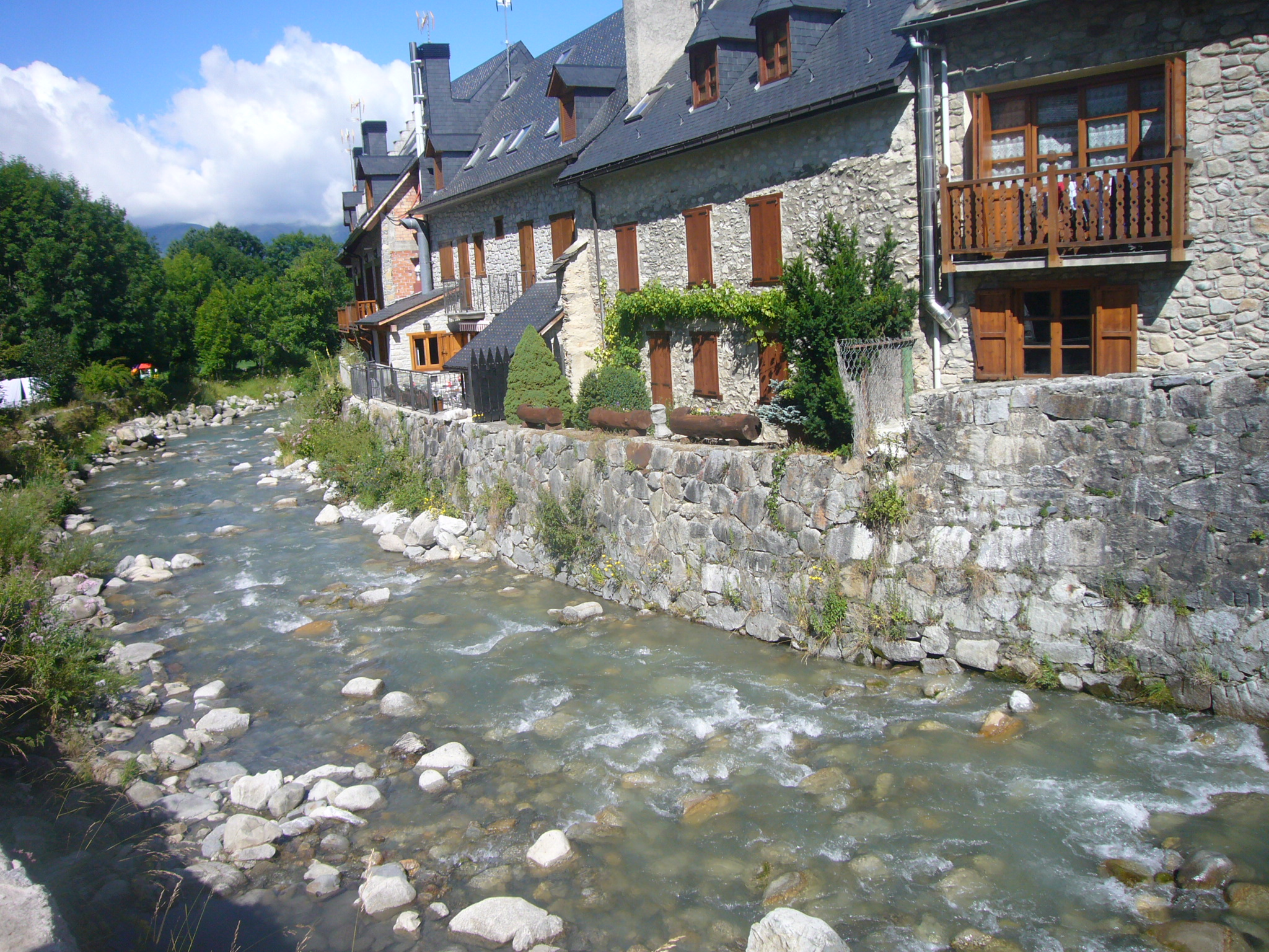 Garonne river in Arties